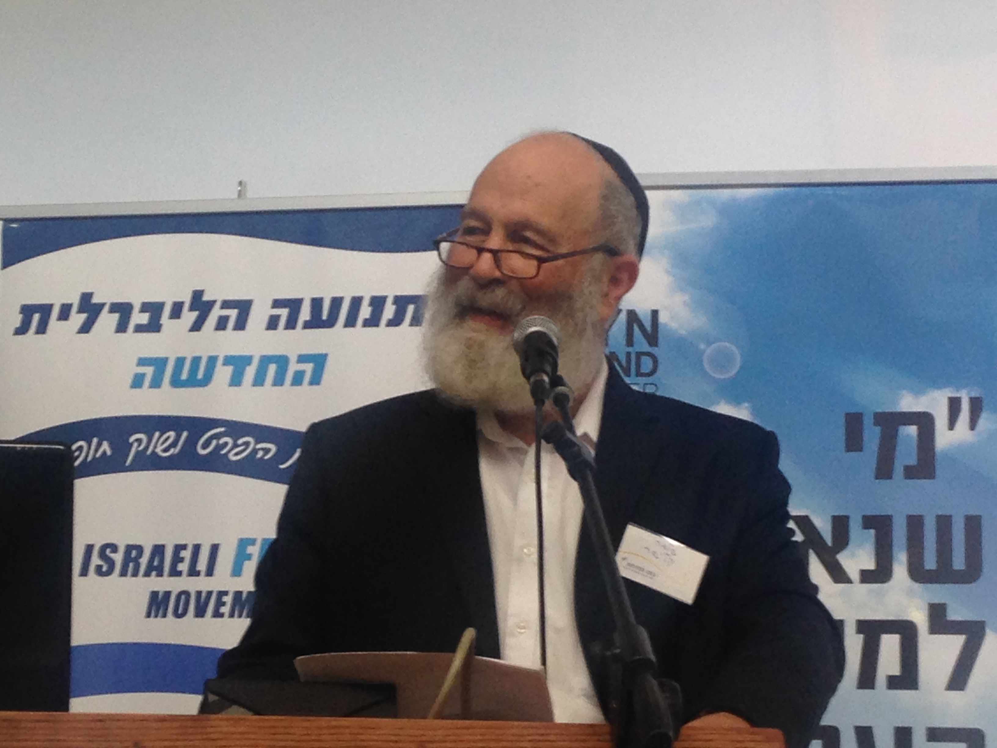 Dr. Shlomo Kalish, Israeli entroponour